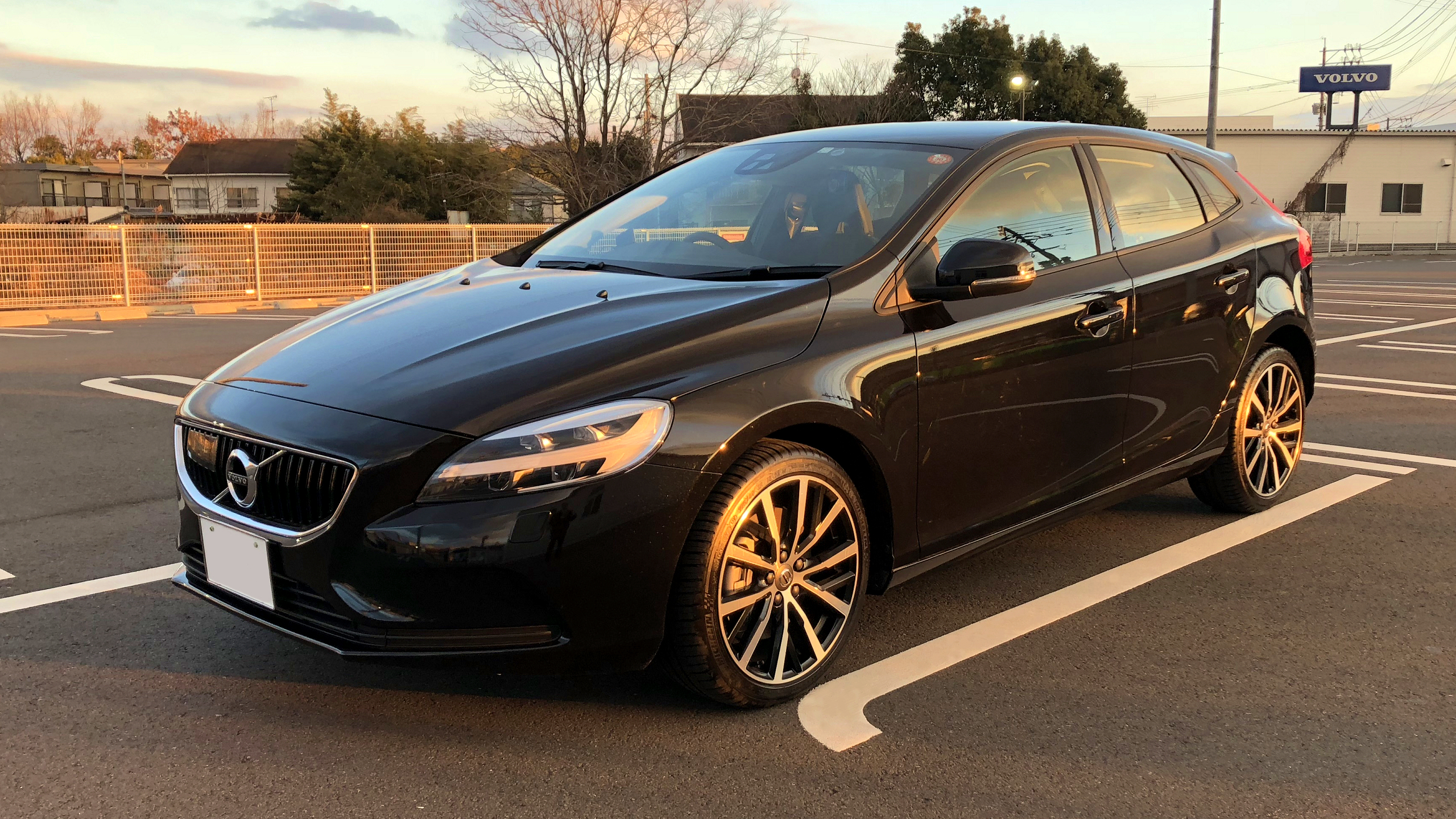 VOLVO V40 D4 Dynamic Edition 2017(JPN).Photographed in Japan.